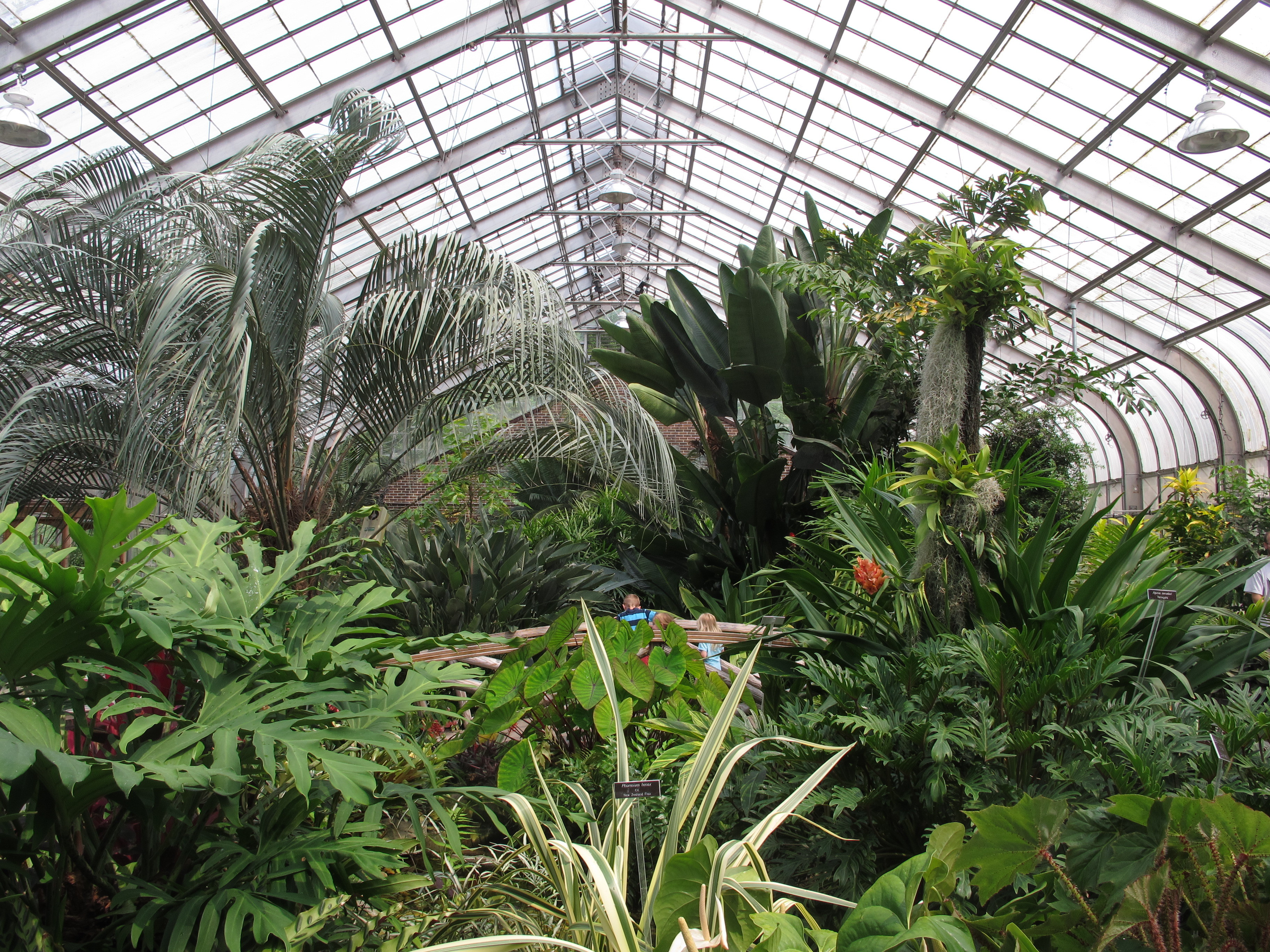 In the Conservatory. When using this photo credit Brookside Gardens and link to this page